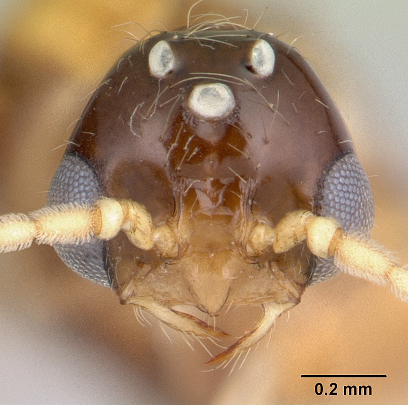 Head view of ant Solenopsis daguerrei specimen casent0178132.